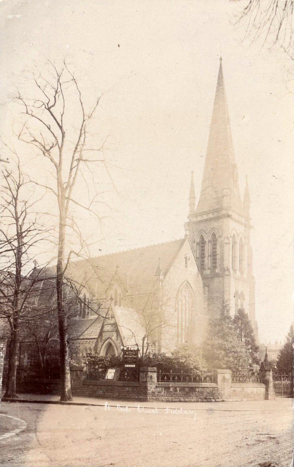 St Paul's Church, Didsbury C1906.jpg